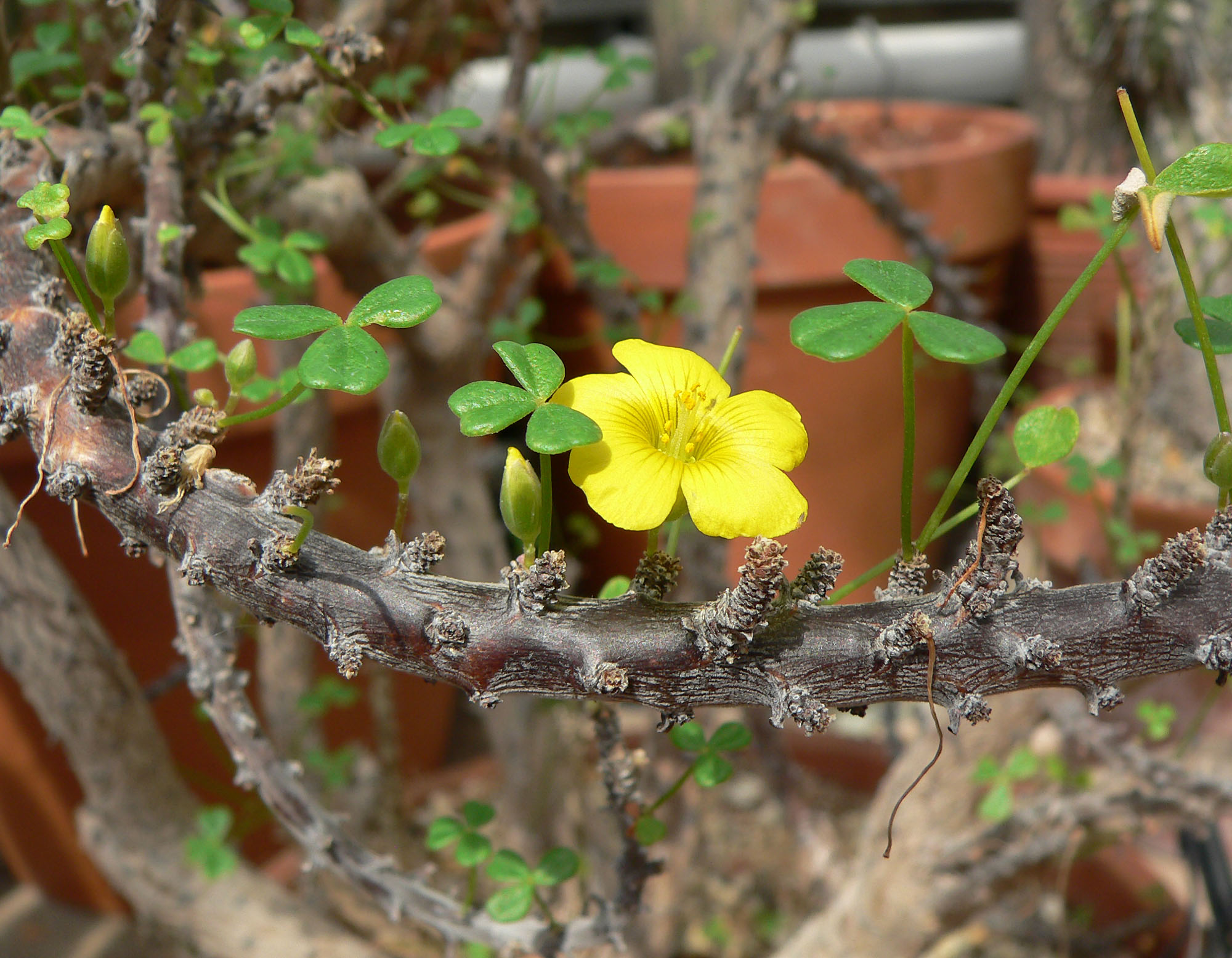 Oxalis gigantea at the University of California Botanical Garden, Berkeley, California